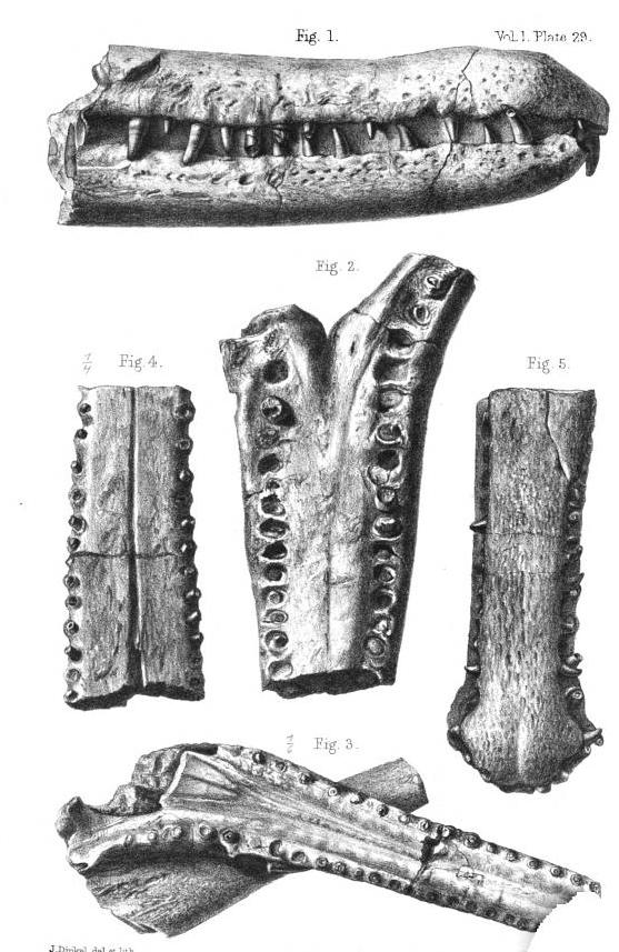 Illustration of fossil crocodylians from the Sewalik Hills in India, published in Palaeontological Memoirs and Notes of the late Hugh Falconer: With a Biographical Sketch of the Author Compiled and edited by Charles Murchison (Volume I, Rob. Hardwicke, 1868). Figures 1 and 2: Crocodilus crassidus (=Rhamphosuchus crassidens). Figures 3 and 4: Crocodilus Leptodus. Figure 5: Leptorhynchus Gangeticus.